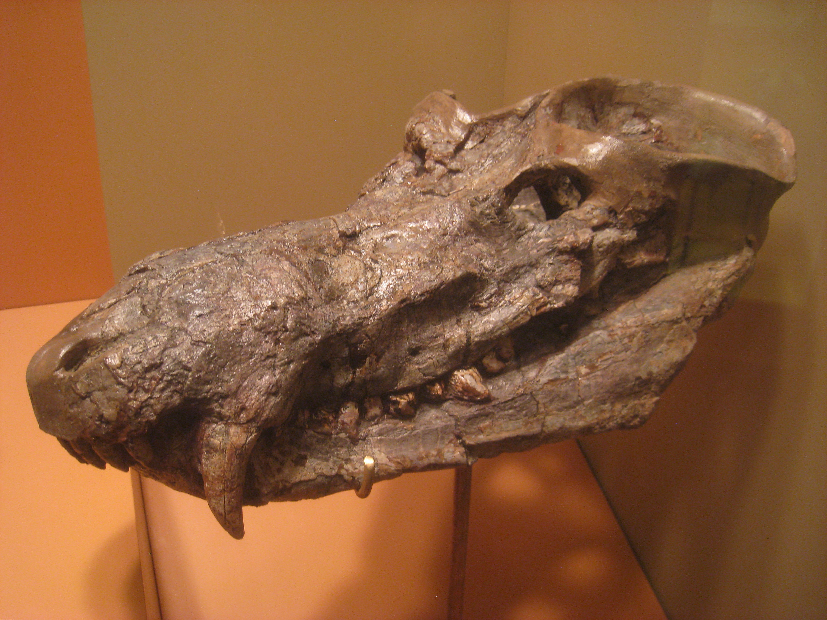 Cynognathus crateronotus fossil specimen in the National Museum of Natural History, Smithsonian Institution, Washington, DC, USA.